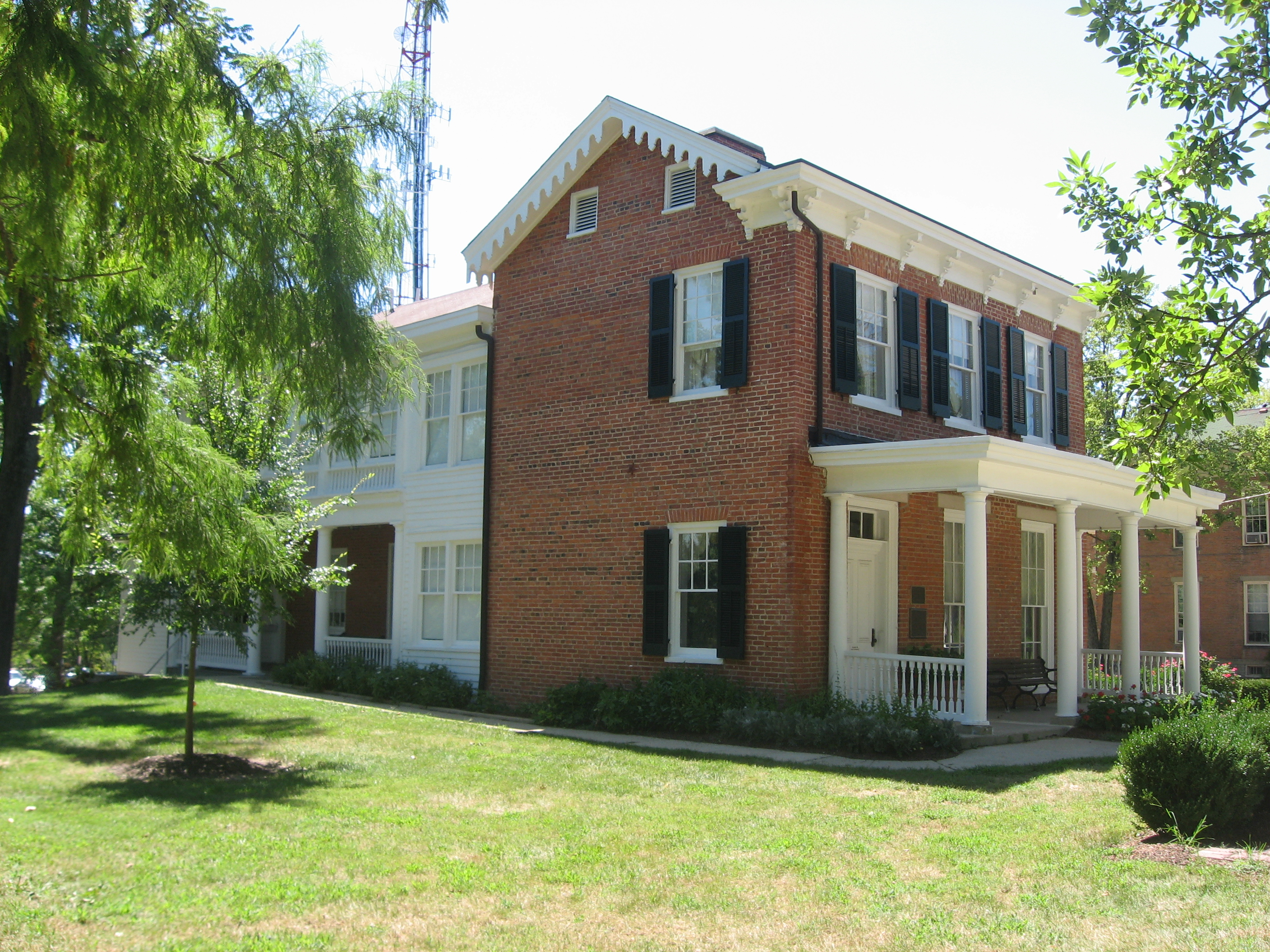 Front and eastern side of the William H. McGuffey House, located at 401 E. Spring Street on the campus of Miami University in Oxford, Ohio, United States. Built in 1833 as the home of William Holmes McGuffey and since converted into a museum, it has been designated a National Historic Landmark.